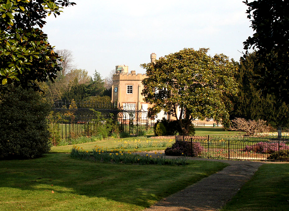 Surrey: The Mansion House, Nonsuch Park